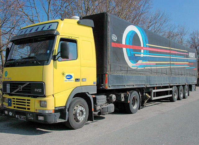 Truck Polish transport company Pekaes